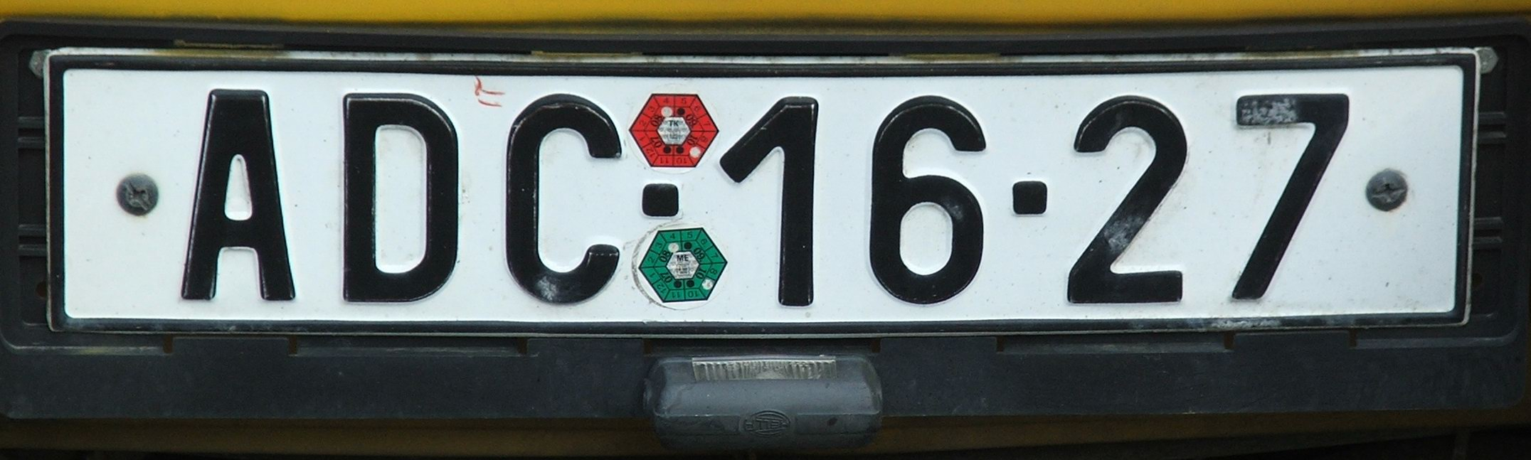 Old Czechoslovak vehicle licence plate (issued 1960-1984 and still valid in Czech republic) AD it stood for Prague